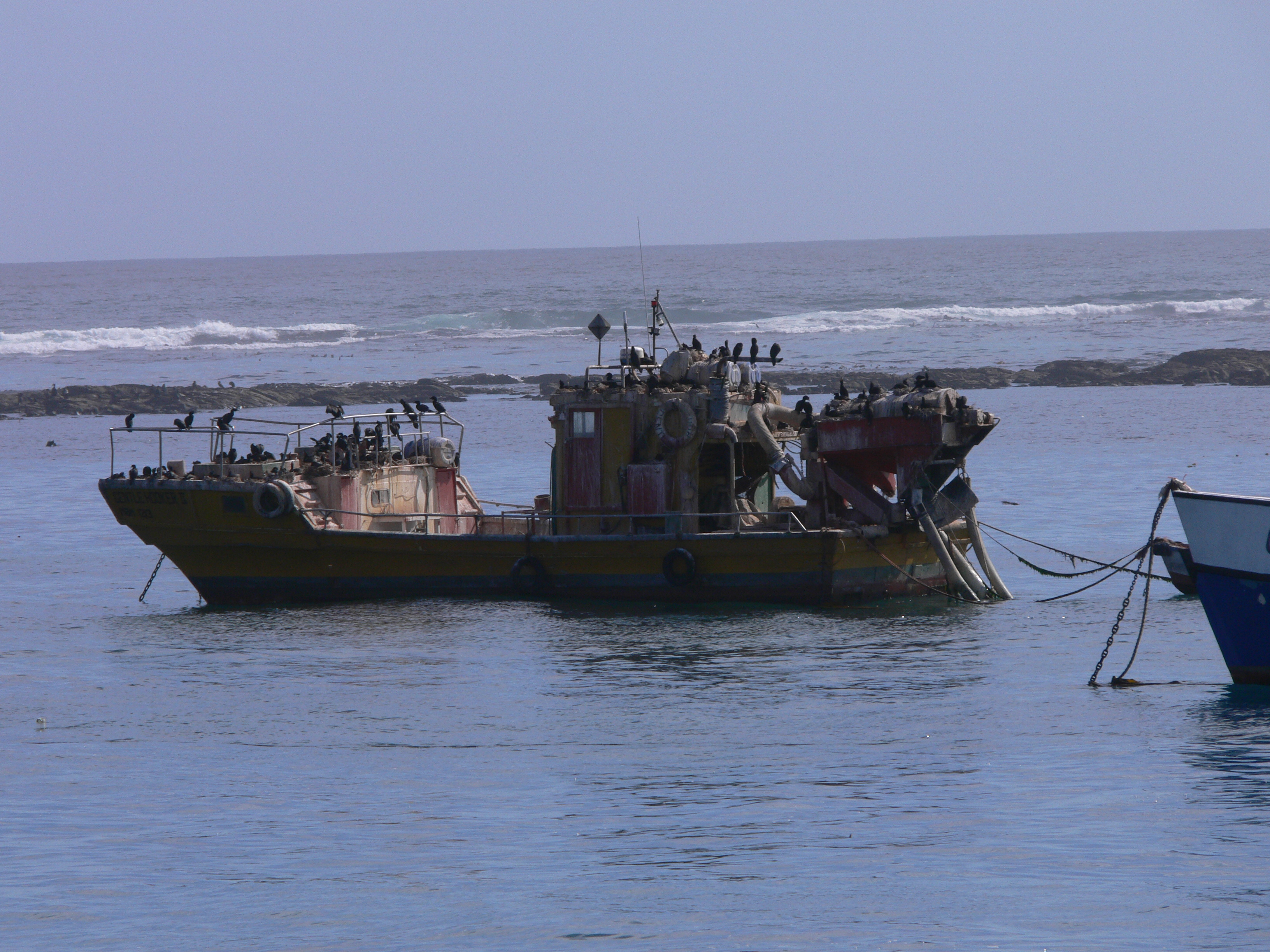 A shipwreek in the Port Nolloth harbour, Northern Cape, South Africa.